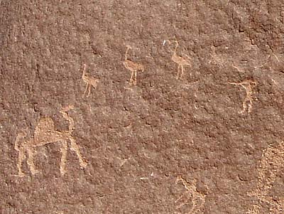 There are thousands of Thamudic drawings and inscriptions in the Wadi Rum area. This scene includes most of the typical elements of Thamudic rock art: a hunter with bow and arrow (right), ibex, a camel, and a rider on horseback (bottom).